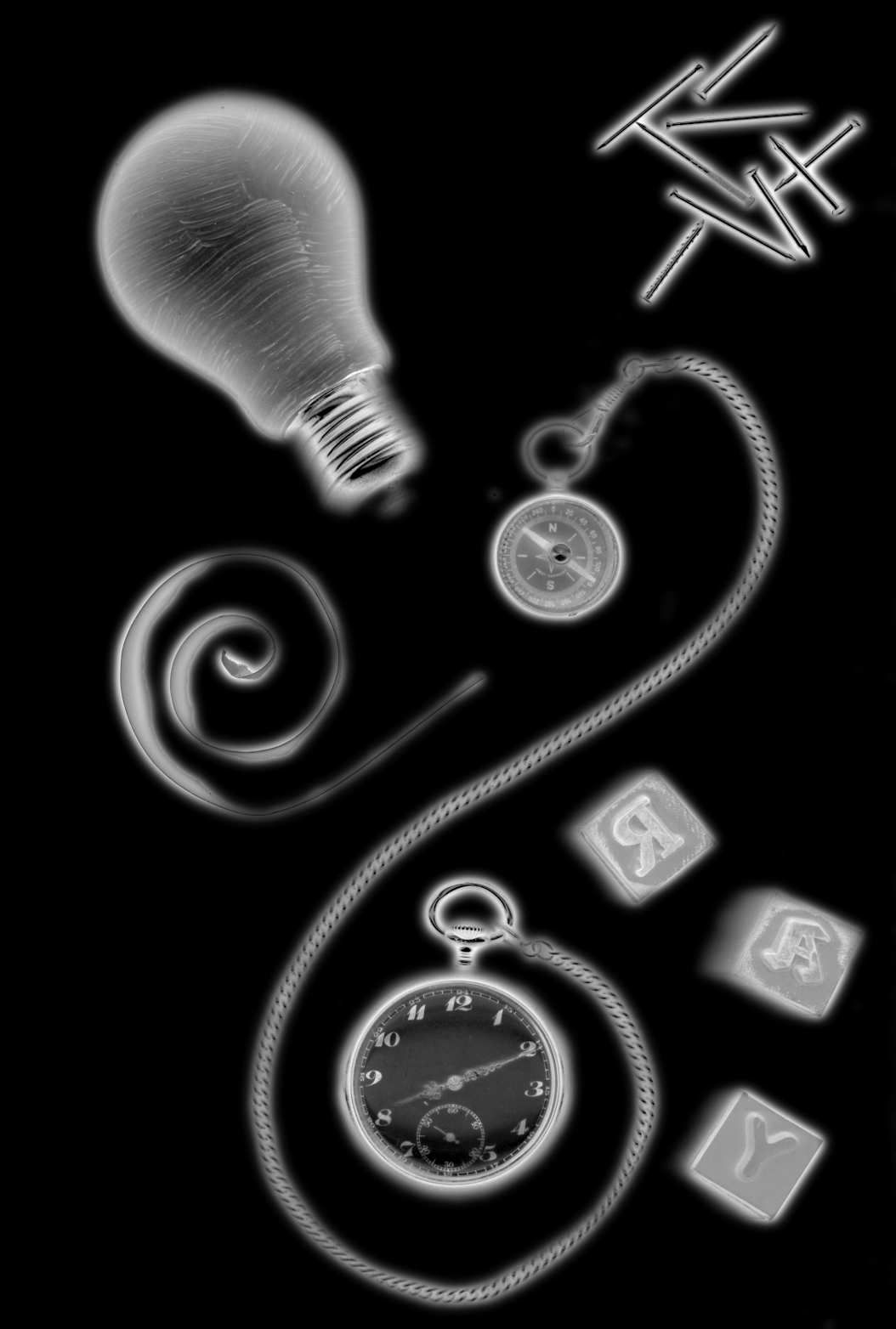 Photogram in the style of a rayograph